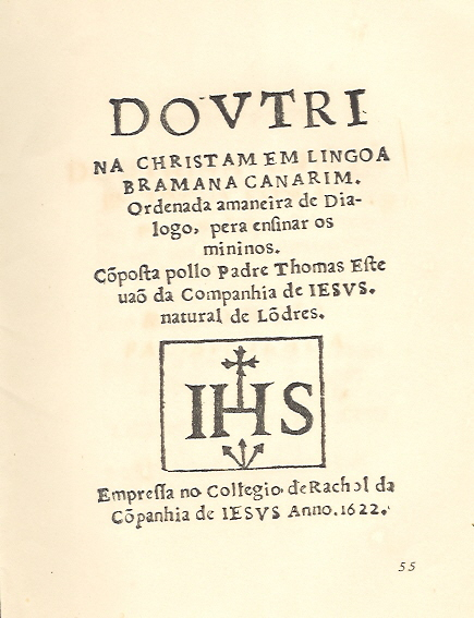 Cover page of the book of Fr. Thomas Stephens's Doutrina Christam em Lingoa Bramana Canarim (Christian Doctrines in the Canarese Brahmin Language) (1622), a Jesuit missionary priest in Goa.